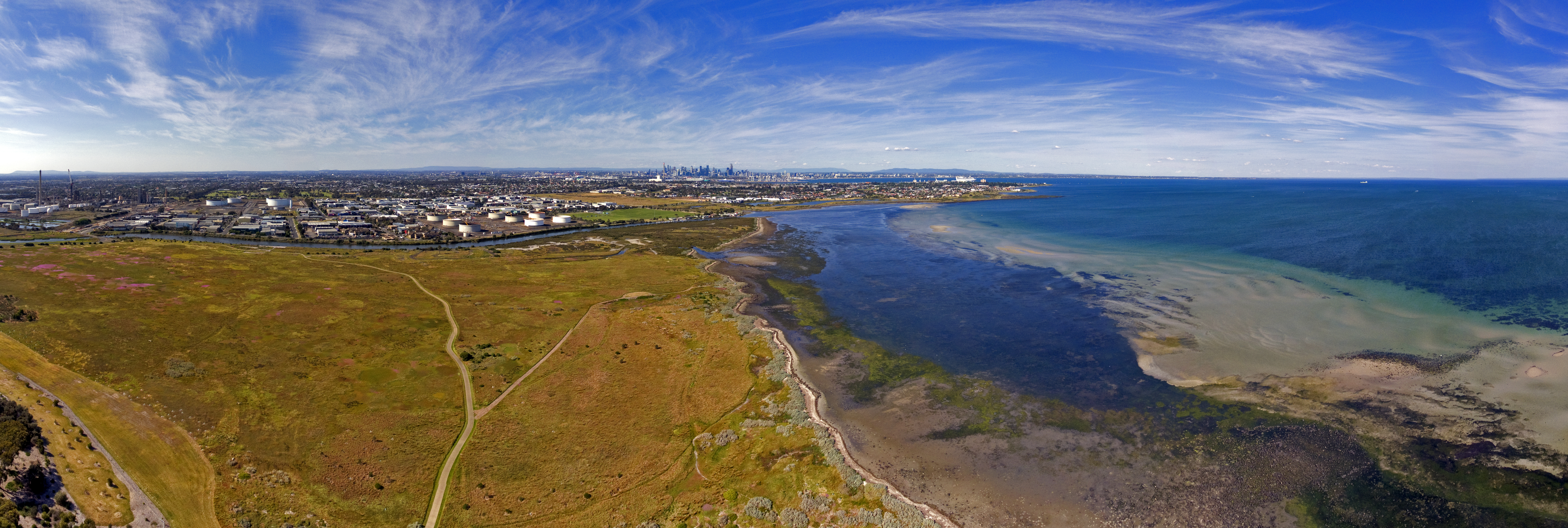 Seaholme Beach from the air on a spring afternoon